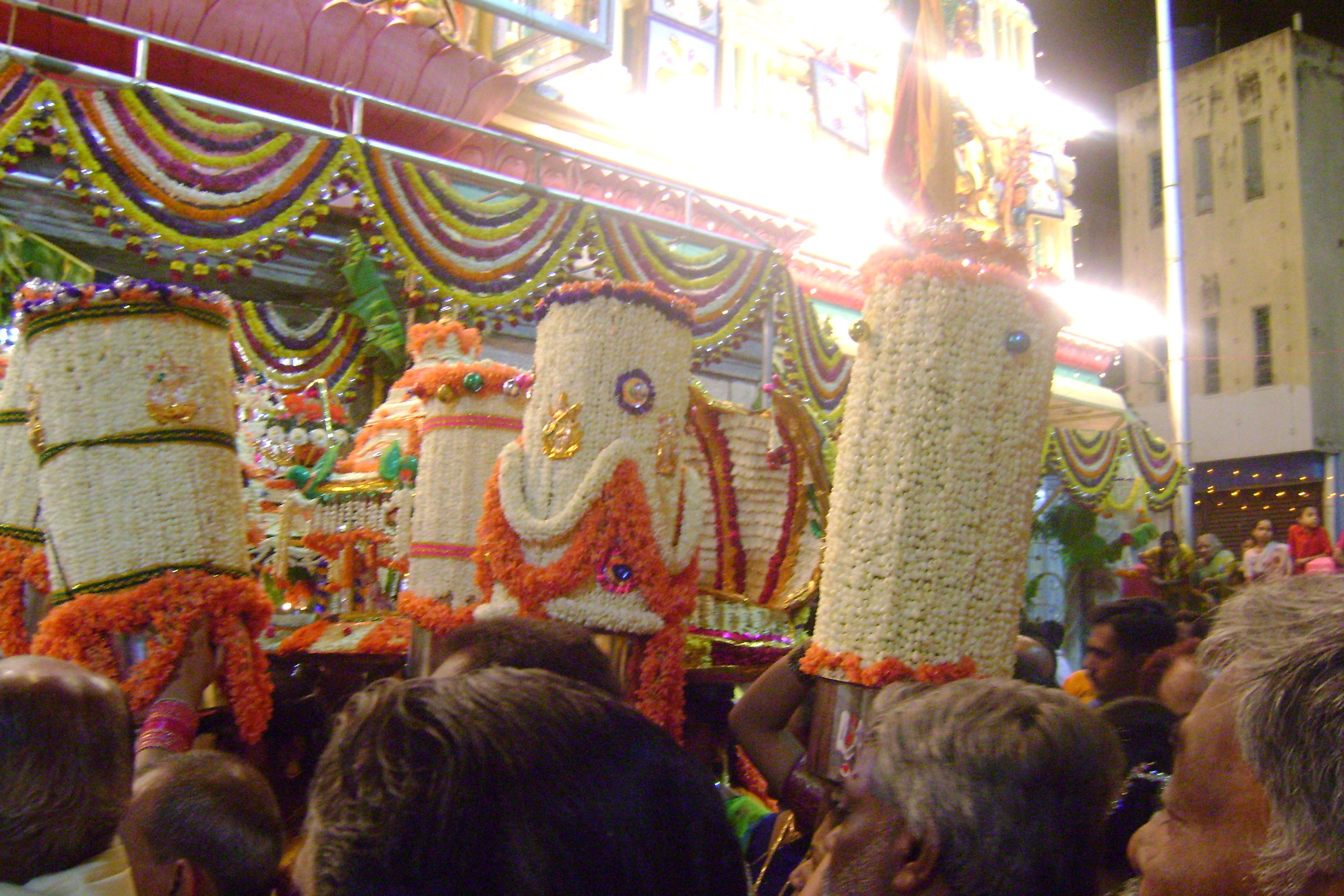 On this day sticks with jasmine and Kankambari flower are fixed to rice along with jaggery cake which are placed inside a vessel which are decorated with flowers called as yelkunga.